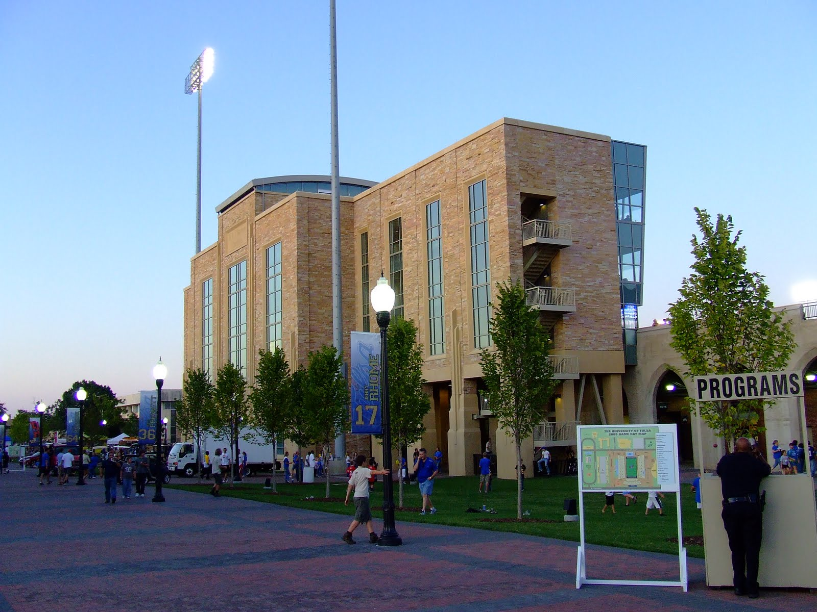 Looking northeast at H.A. Chapman Stadium, at the University of Tulsa.